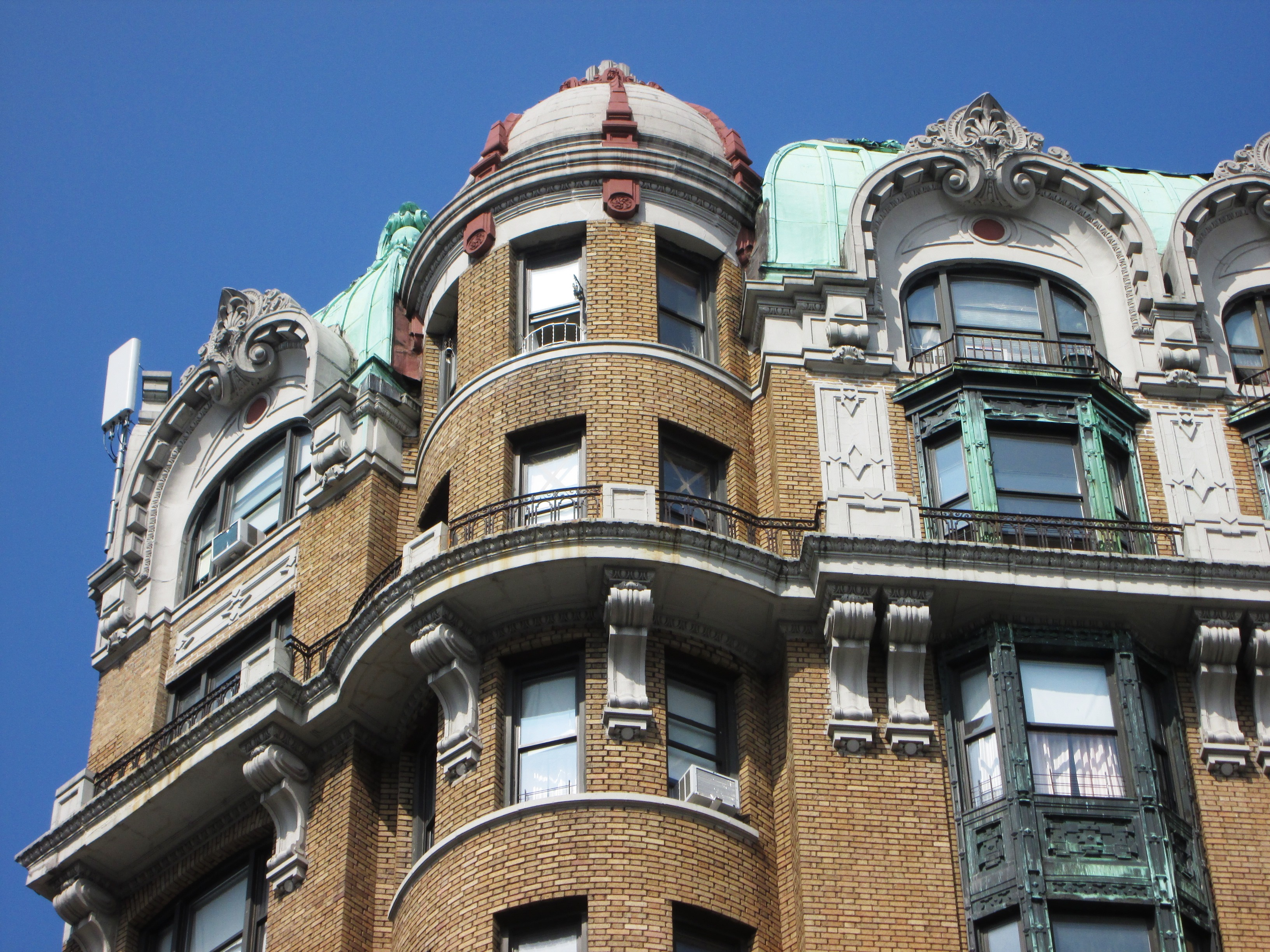 The Sutherland at 611 West 158th Street on the corner of Riverside Drive (#810) in the Washington Heights neighborhood of Manhattan, New York City is a nine-story apartment house built in 1909-10 and designed by Emery Roth in the Beaux-Arts style. It is located in the Aububon Park Historic District. (Source: "Audubon Park Historic District Designation Report)